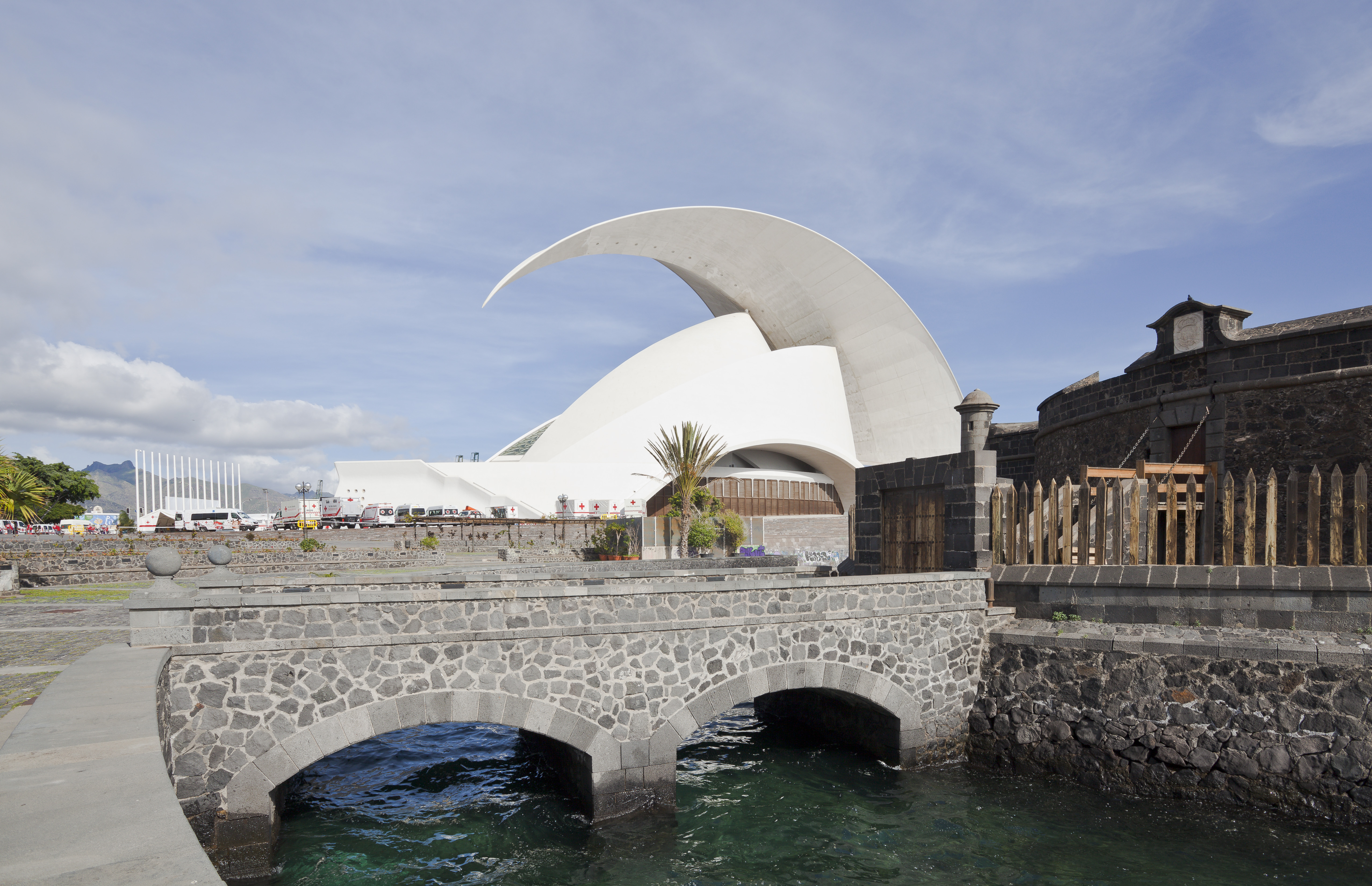 Auditorium of Tenerife, Santa Cruz de Tenerife, Spain